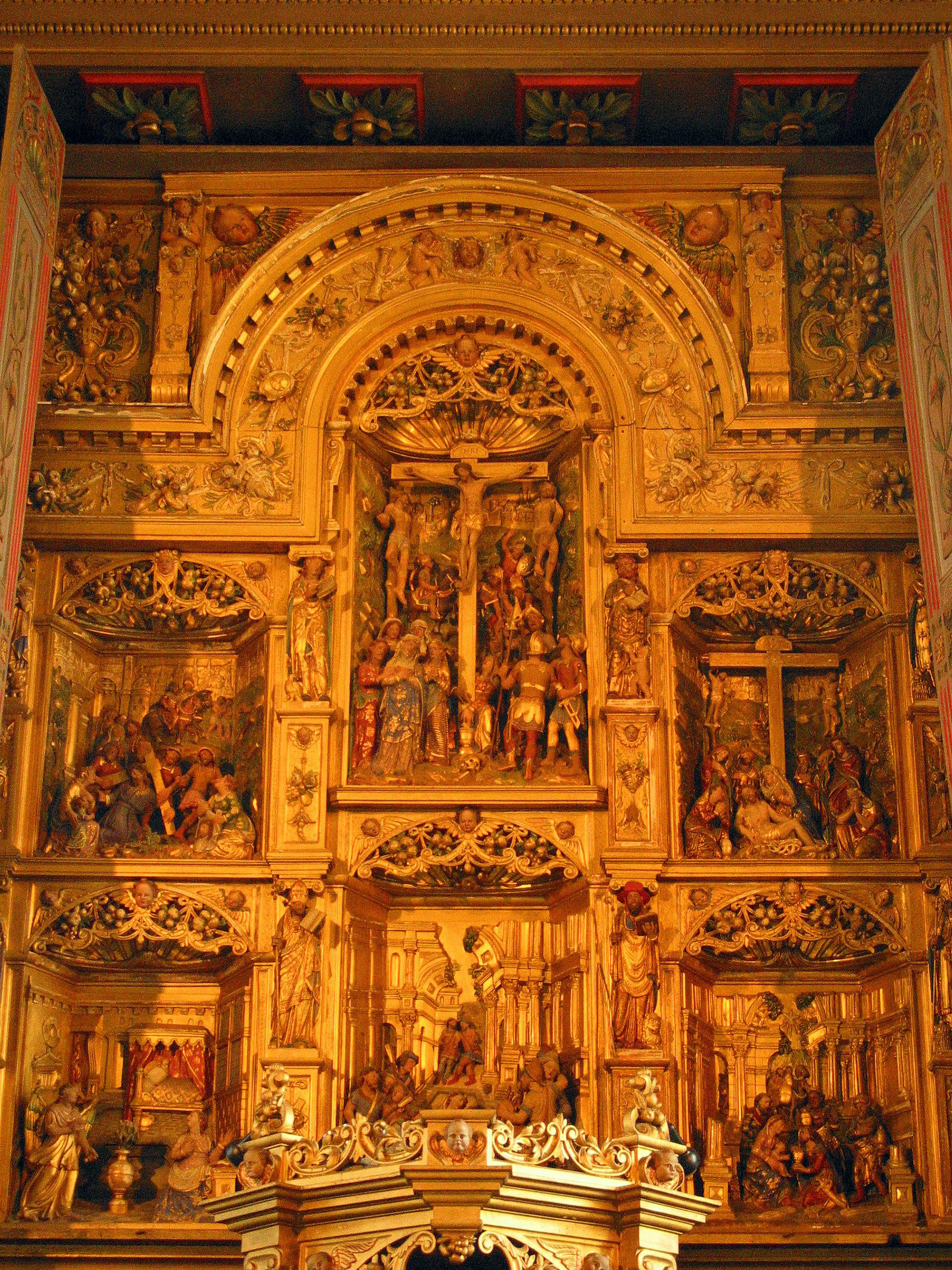 Gedinne (Belgium), the altar piece of the Our Lady of Nativity Church (polychrome oak - XVIth century).